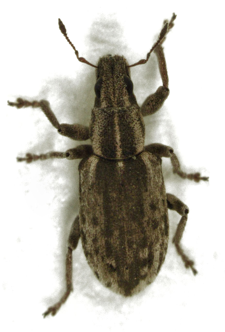 Sitona discoideus Gyllenhal, 1834